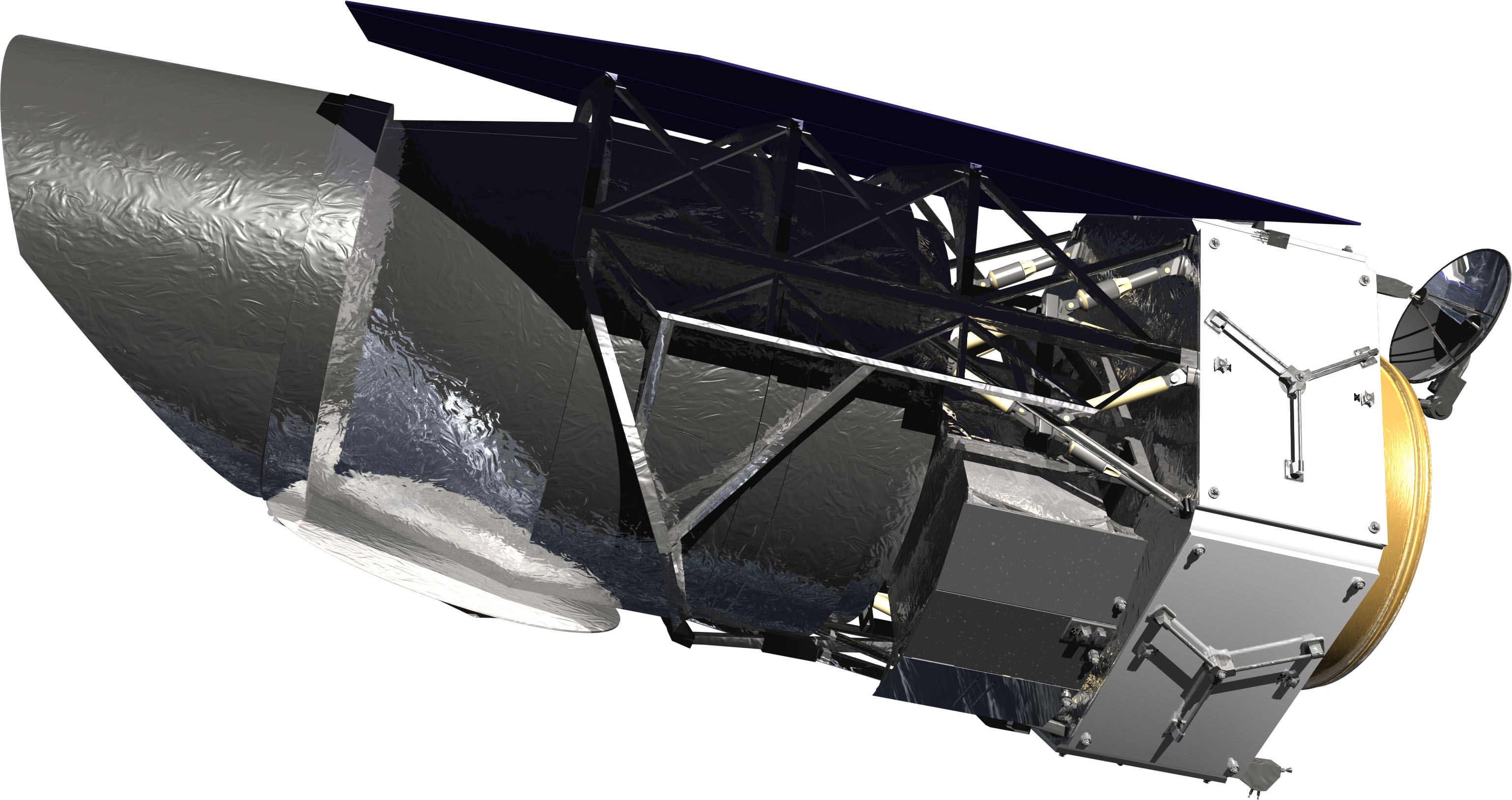 WFIRST mission hardware rendered December 2015 representing current state of design with L2 configuration.